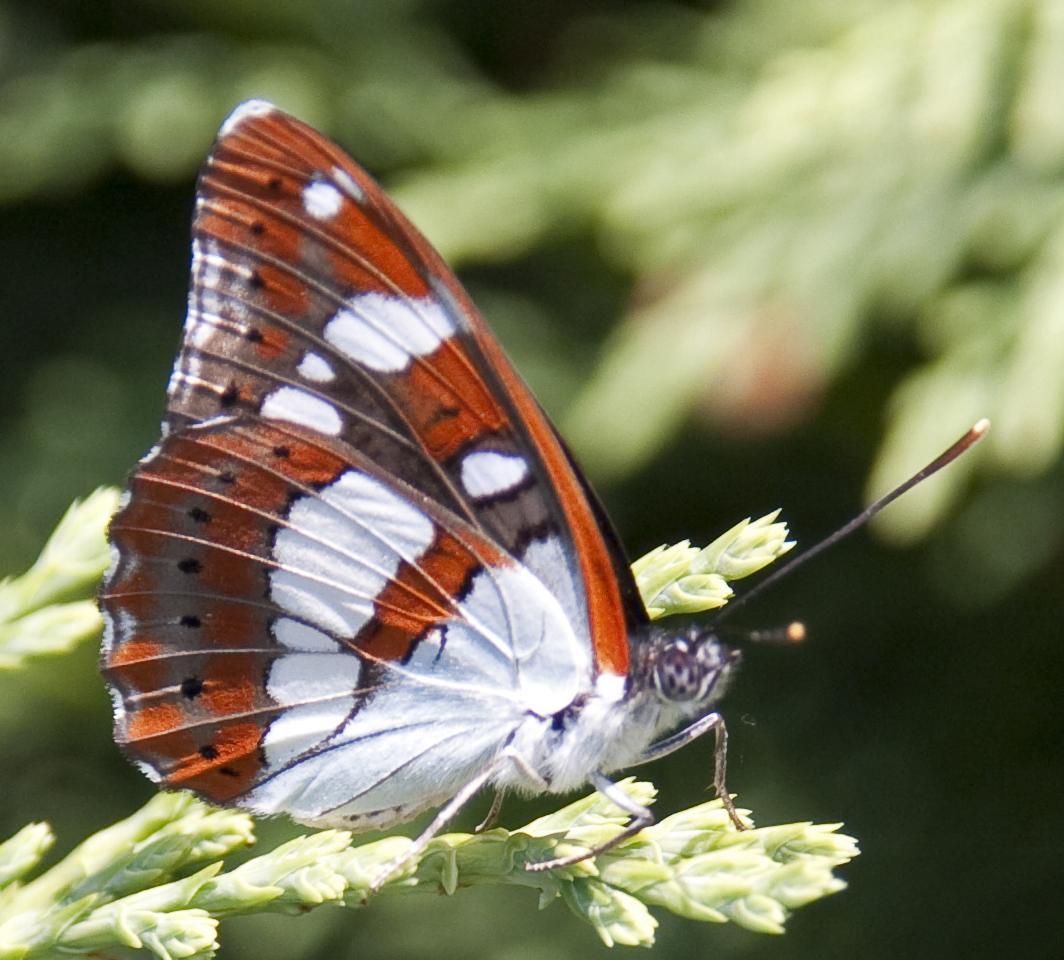 Limenitis reducta